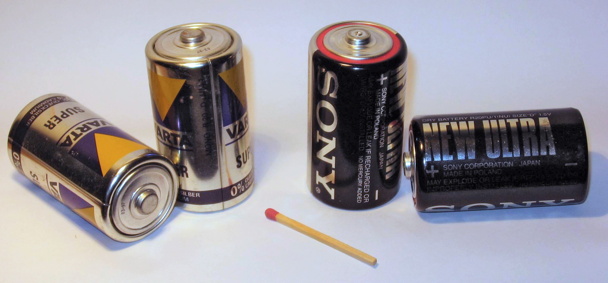 Size "R-20" / "D" disposable batteries